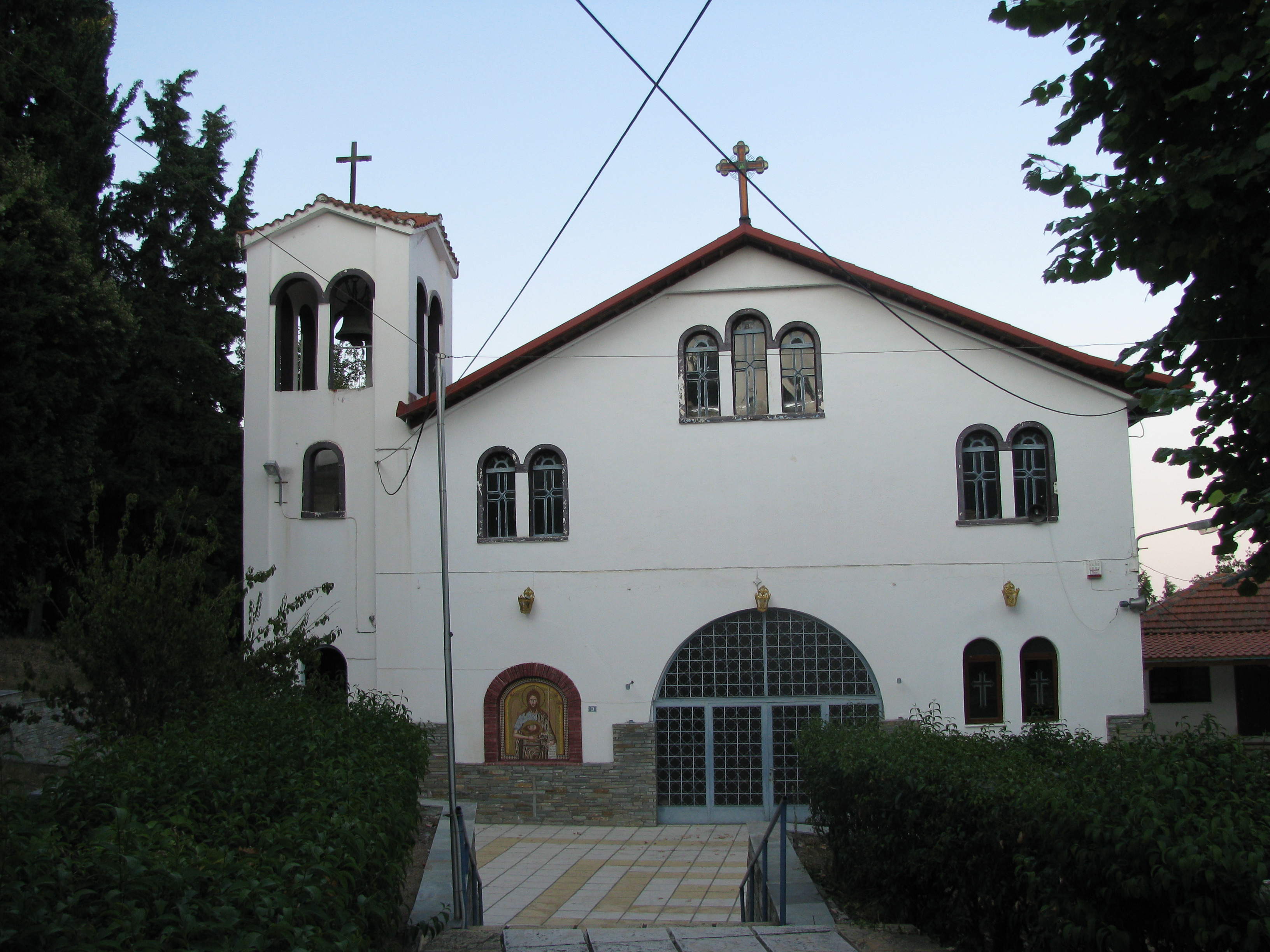 Church of Tsarkovyani or Eklesiohori, Pella prefecture, Greece